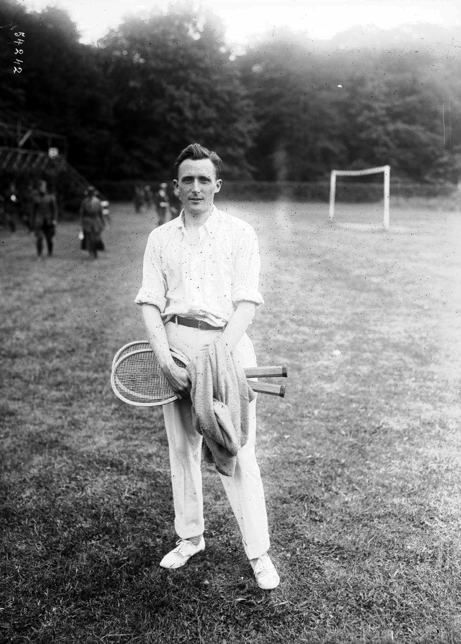 American tennis player Dean Mathey (1890-1972), at the 1919 Inter-Allied Games at Paris